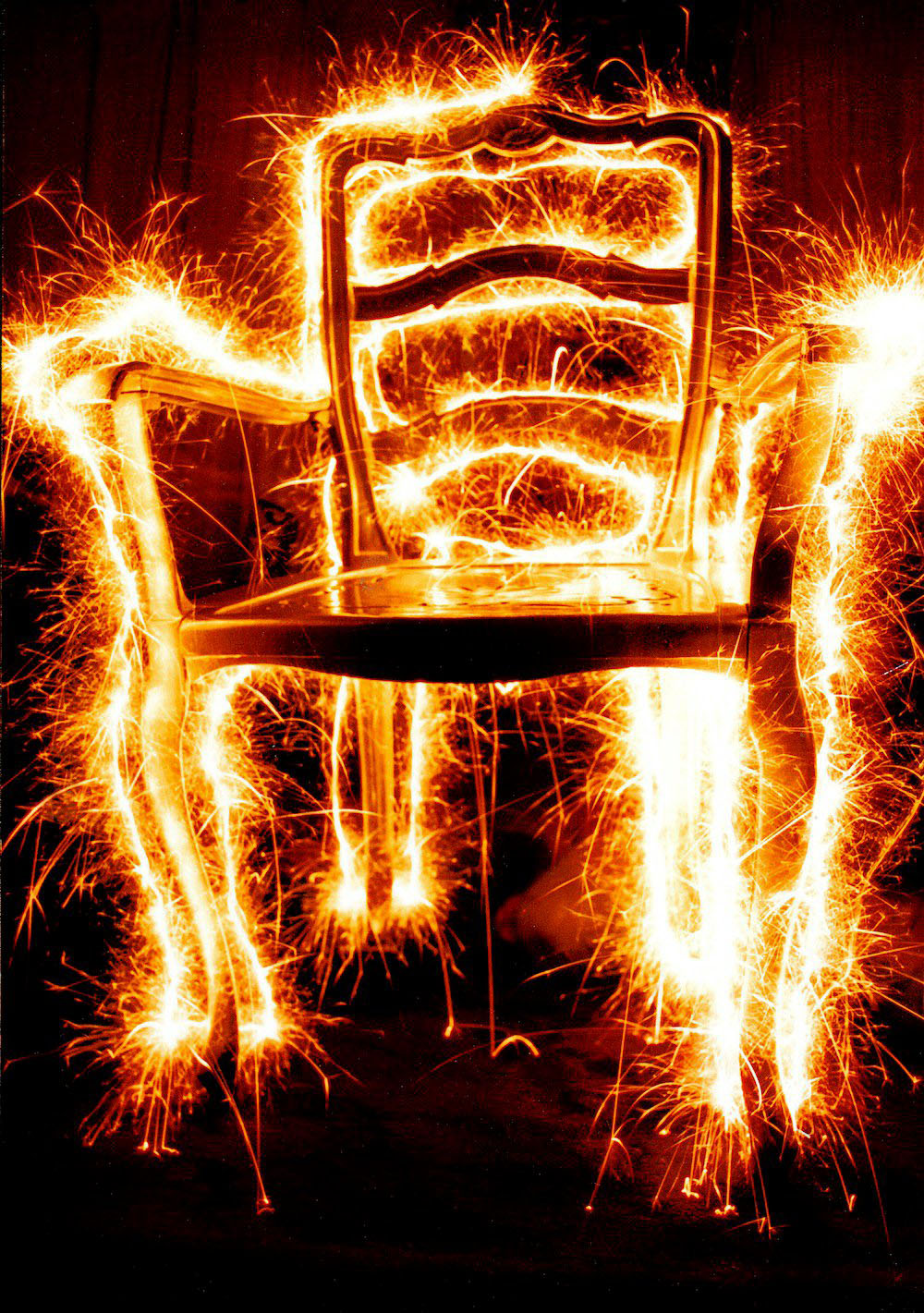 Light painting, Philipp von Ostau